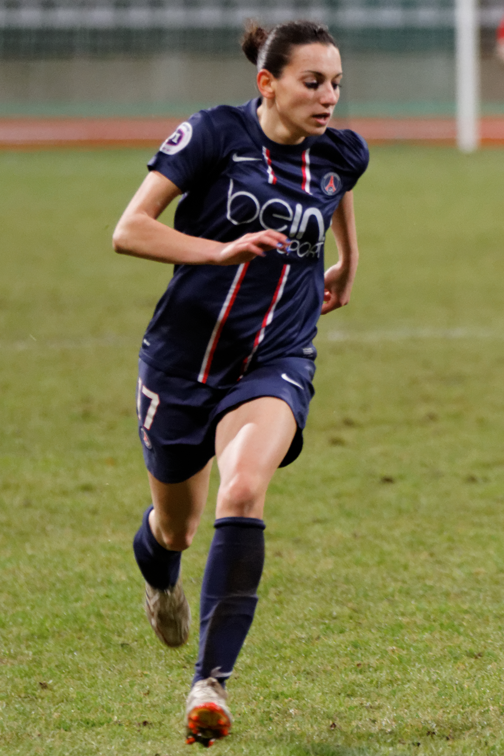 PSG-AS Saint-Étienne, december 16th, 2012. Aurélie Kaci (PSG).